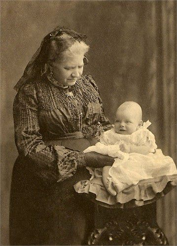 Photograph of Célestine Nicols (1831-1916) with her grand-daughter Louisa Lucie Anne Nicols Pigache (born 1879)